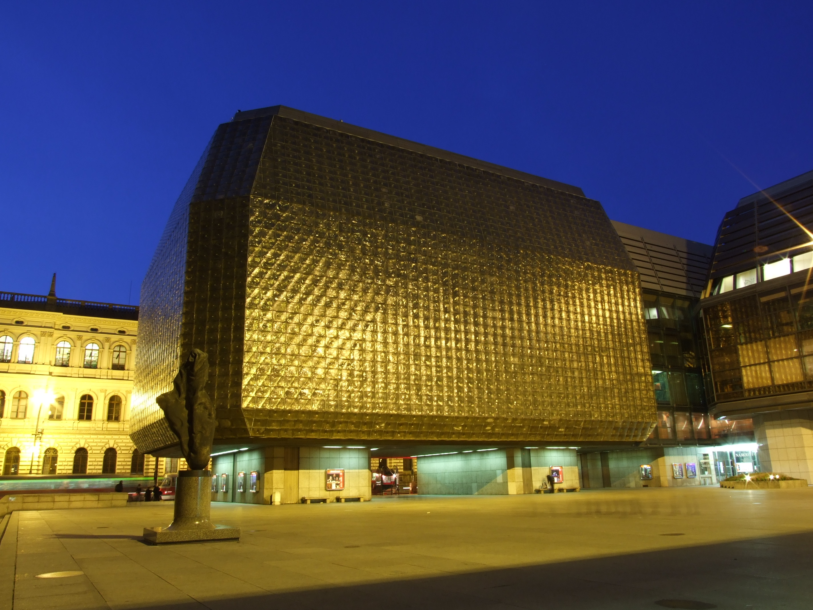 National theatre in Prague. Not only the historic building, but also the new one from 1980's